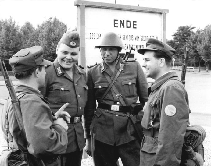 14.08.1961, Erection of the Berlin Wall. GDR borderguards and members of a Combat Group of the Working Class at the border of the Berlin sector. Note the Combat Group members are still equipped with german WW2 Era Mauser 98K carabines. Original caption reads: "Securing the borderline. In socialist combat-collective stand the comrades of the peoples army, the combat groups and the peoples policeforce at the borders of Berlin on the guard for peace. Publication only with clearance by the pressoffice of the MDI"